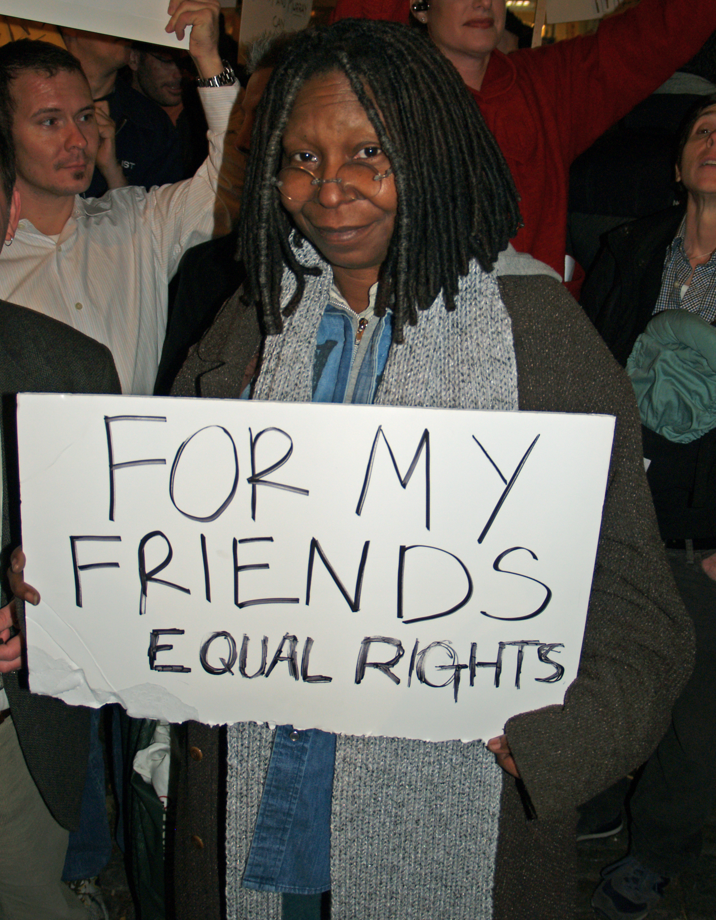 Whoopi Goldberg in New York City protesting the passage of California's Proposition 8 outside the Mormon Temple at Lincoln Center. Photographer's blog post about this photo and the protest.